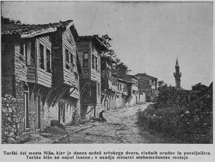 Turkish quarter in Niš in the 19th century